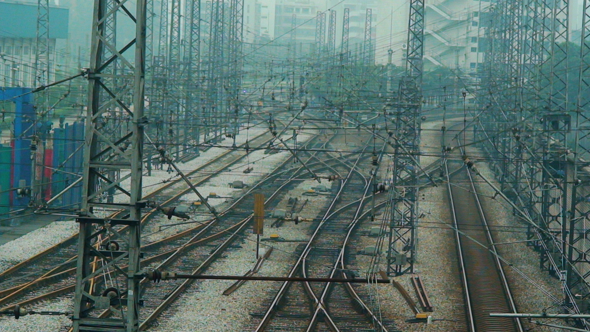 Tracks in front of Xilang Station, Guangzhou Metro Line 1